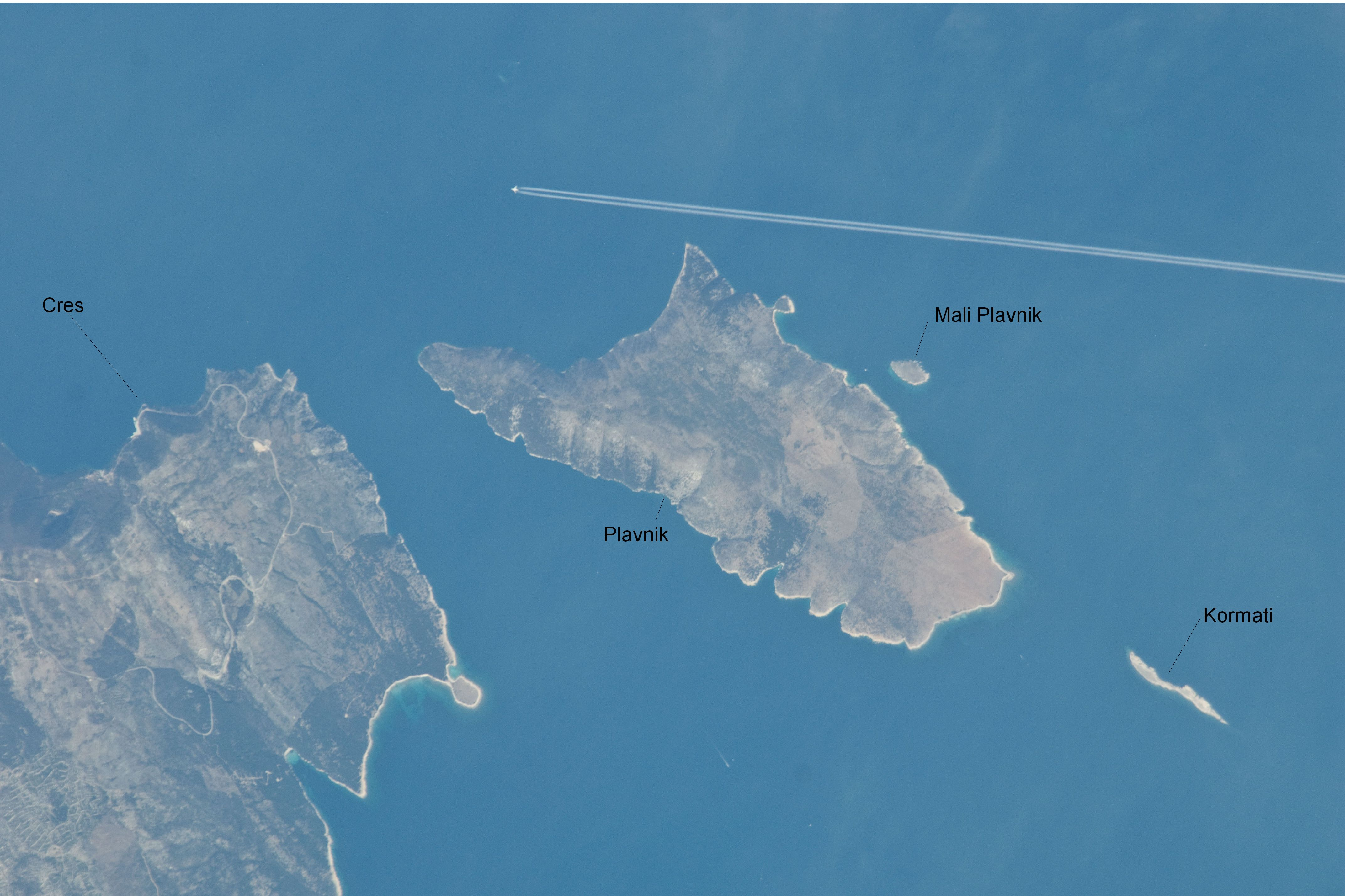 Satellite picture of Plavnik and surrounding islands with indicators